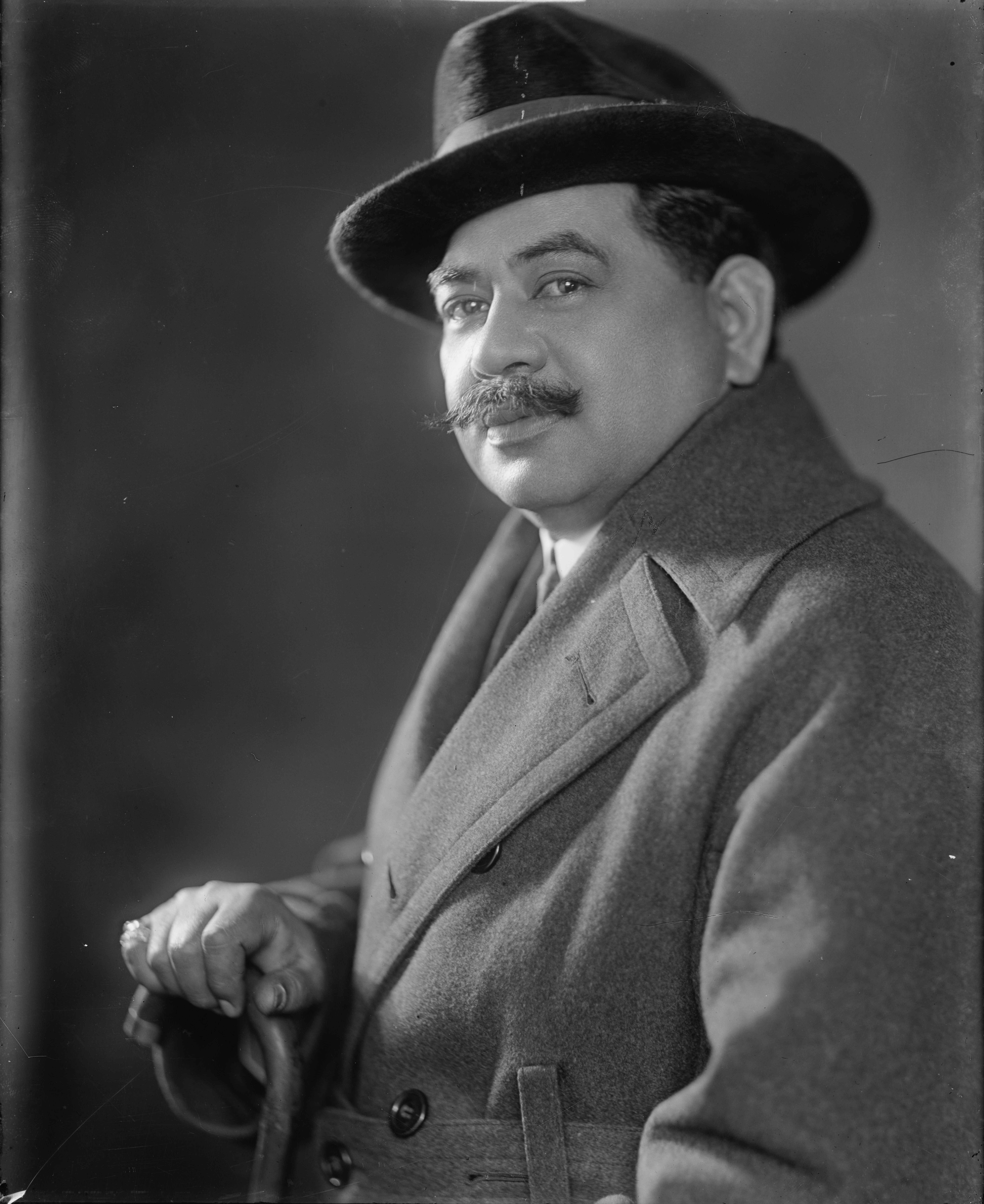 Jonah Kūhiō Kalanianaʻole], congressional delegate from Hawaii Territory